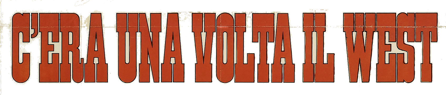 Once upon a Time in the West (1968) the movie logo.